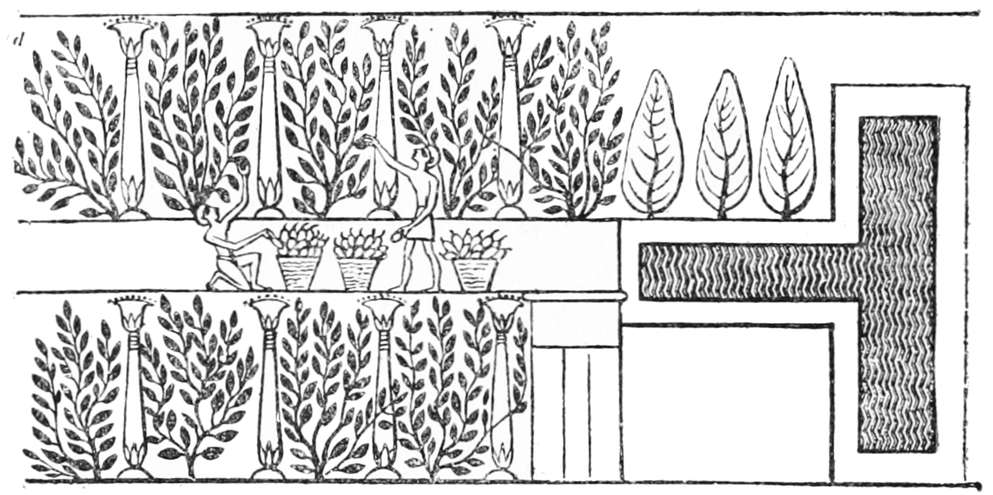 Egyptian vineyard with water reservoir